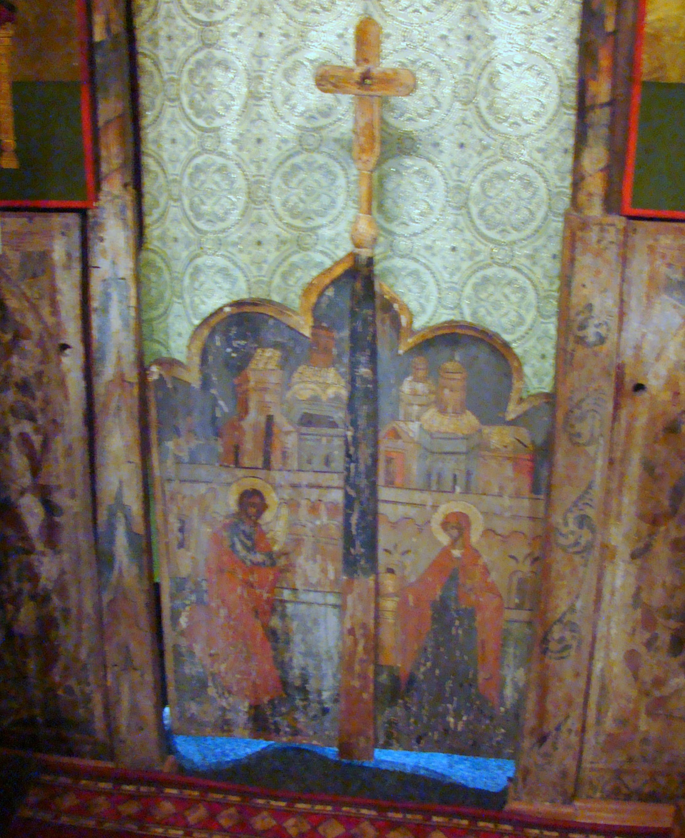 Wooden church in Rovinari, Gorj county, Romania